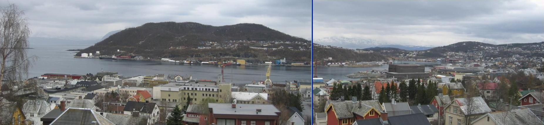 The city Harstad, Norway, as seen from the "Eineberget" view point.